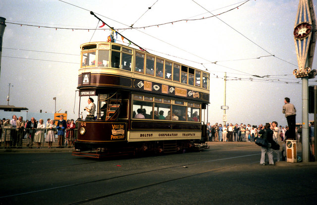 Bolton car No 66 Blackpool Tramway centenary 1985